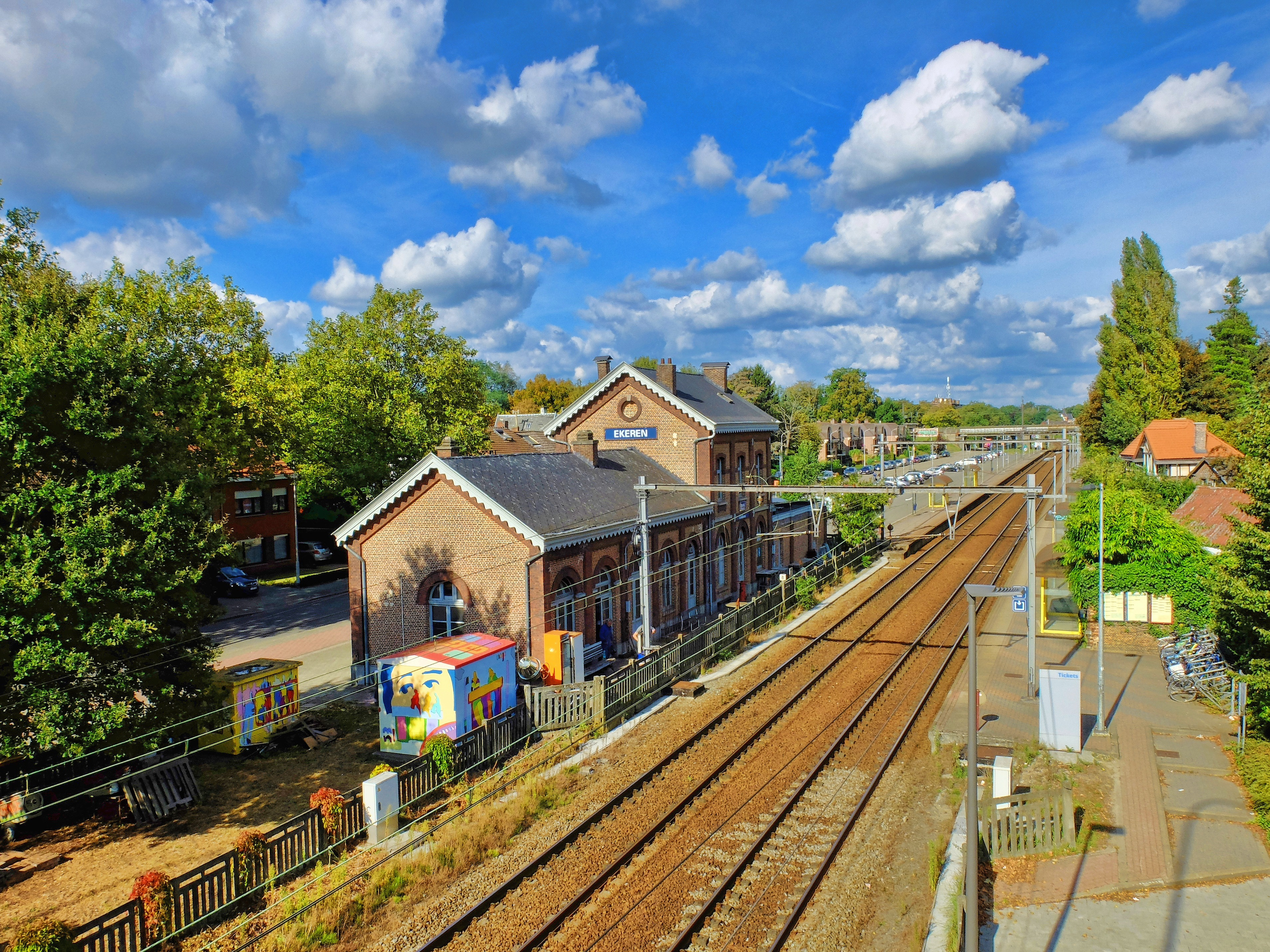 Ekeren train station in Belgium, Antwerp